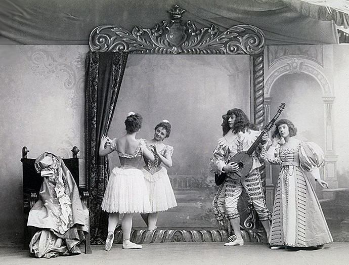 Members of the cast of the ballet "Barbe-bleue" ("Bluebeard") in the scene "Le coquetterie devant le miroir" from the first tableau of act II. Originally created by the choreographer Marius Petipa and the composer Pyotr Schenk. Pictured, from left to right, are the dancers Pierina Legnani as Ysaure (with back turned), Claudia Kulichevskaya as her friend, Sergei Legat as Arthur, and Olga Preobrajenskaya as Anne.